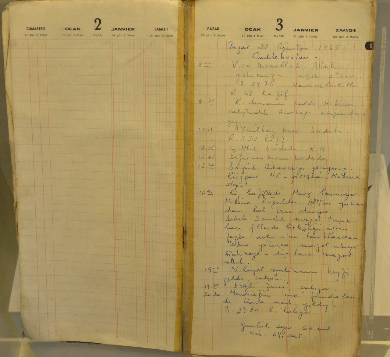 Sadun Boro's notebook